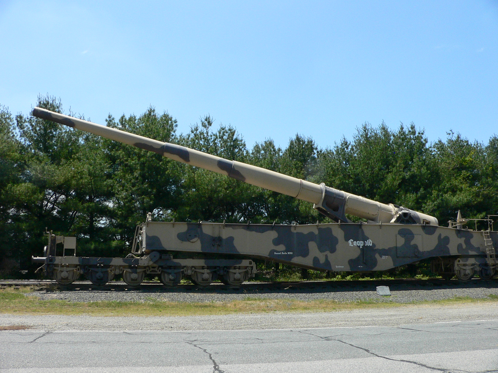 "Leopold" railway gun. Also known as "Anzio Annie". U.S. Army Ordnance Museum, (Aberdeen Proving Ground), MD USA.